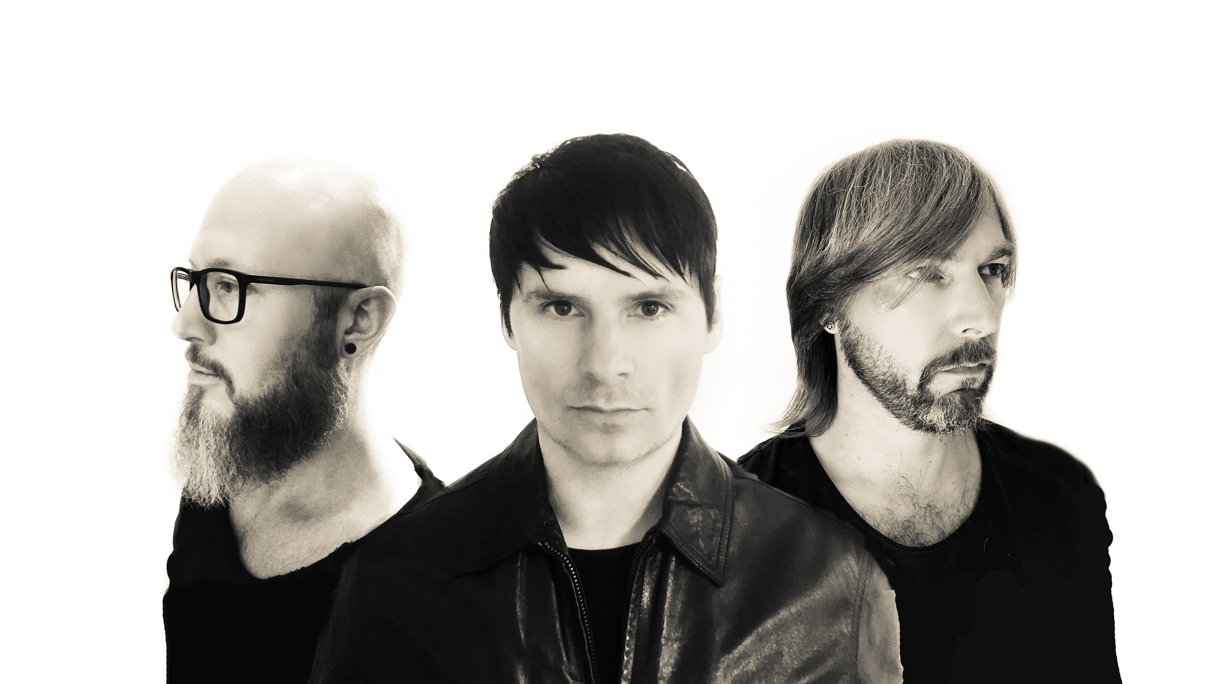 The band Eskobar including from left to right Jocke Brunnberg, Daniel Bellqvist, Frederik Zäll